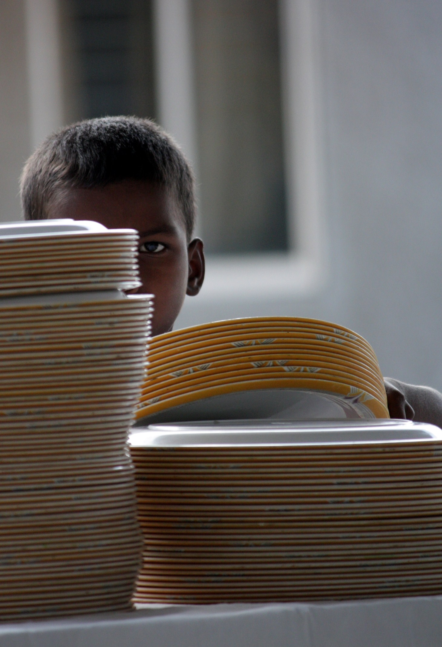 This young man, barely 7 yrs old, is piling up plates at a luncheon...I could see hunger in his eye...